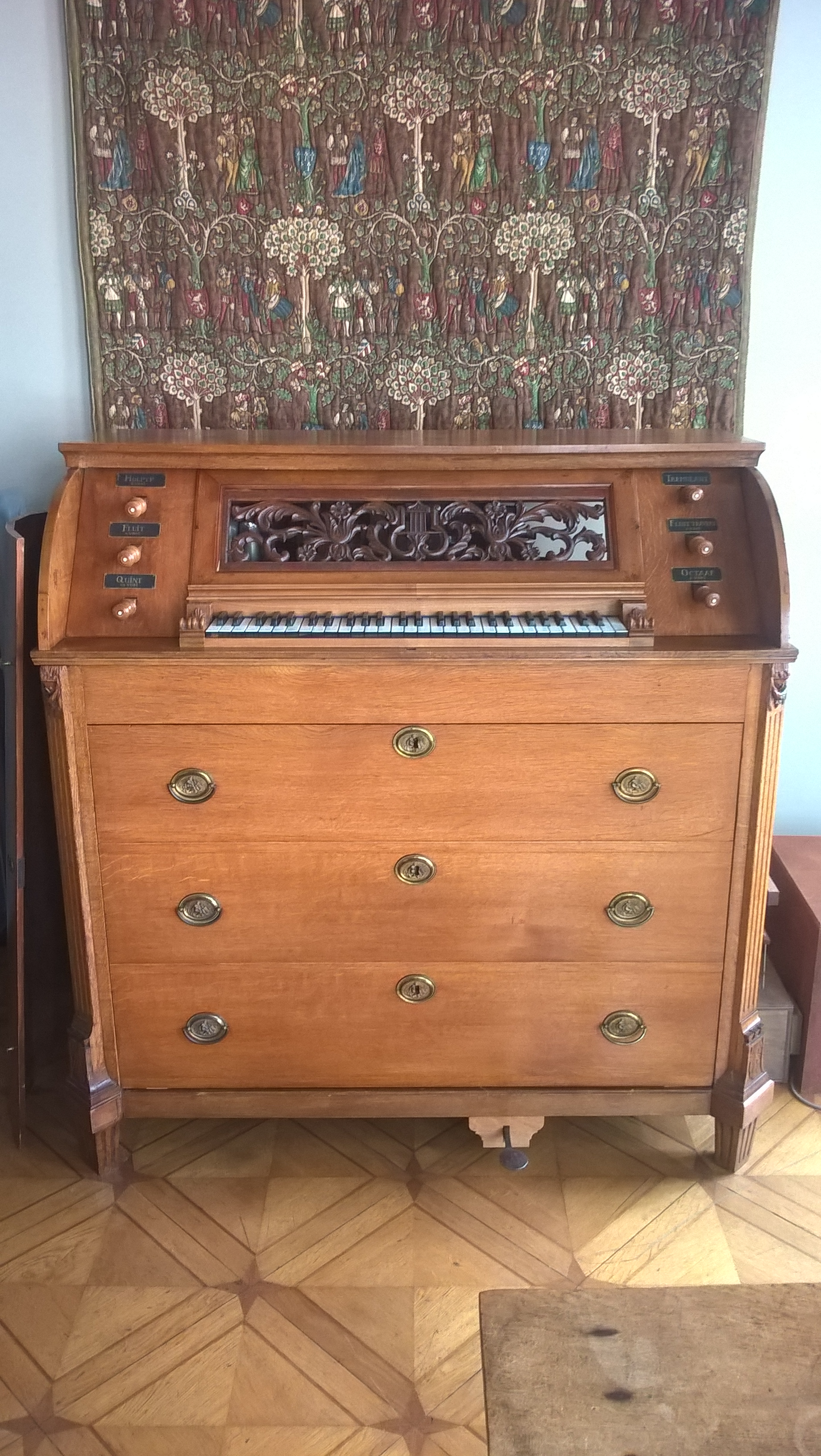 Chamber organ in Organeum in Weener, district of Leer, East Frisia, Germany